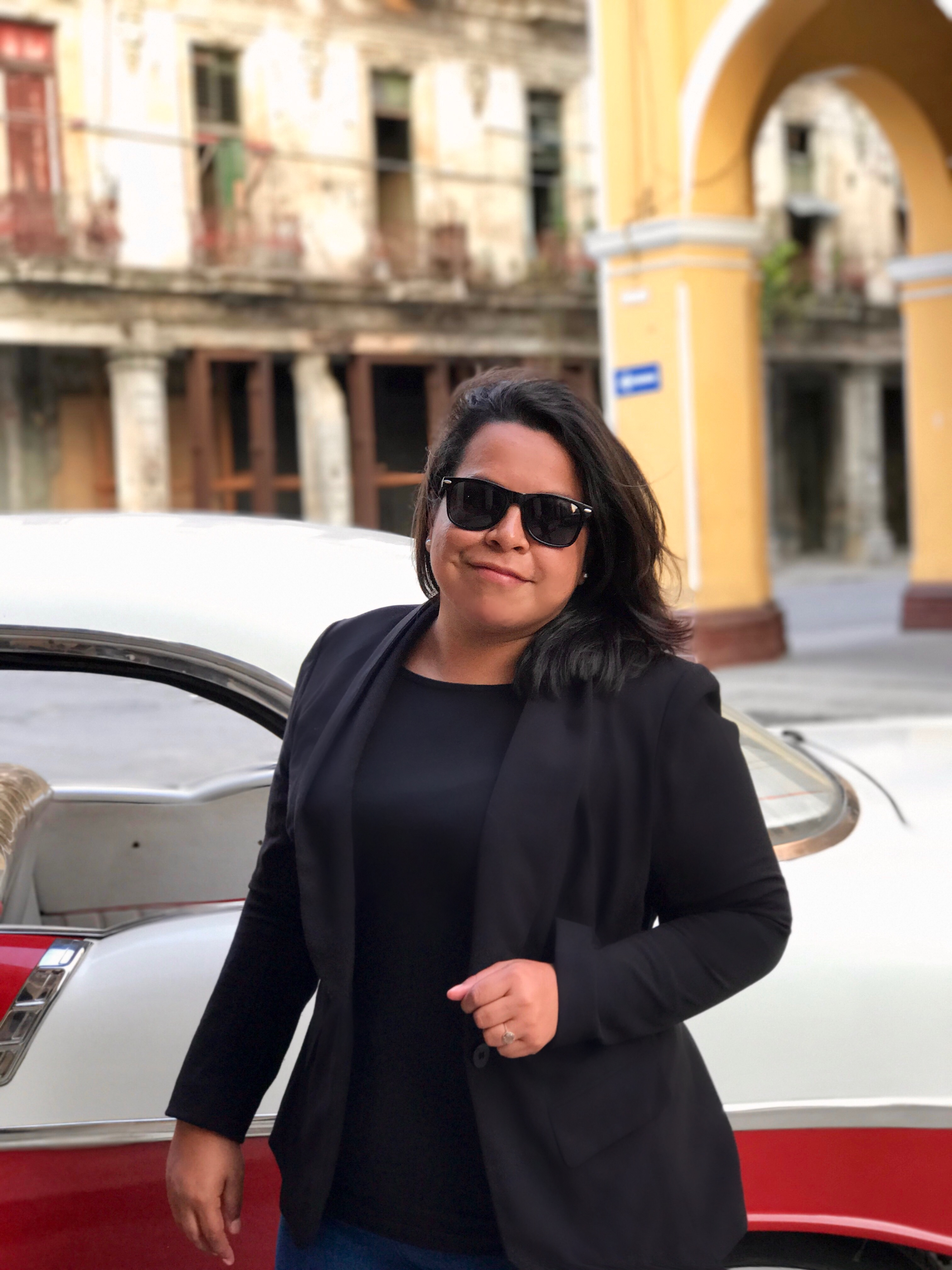 Havana, Cuba